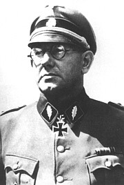 from museum